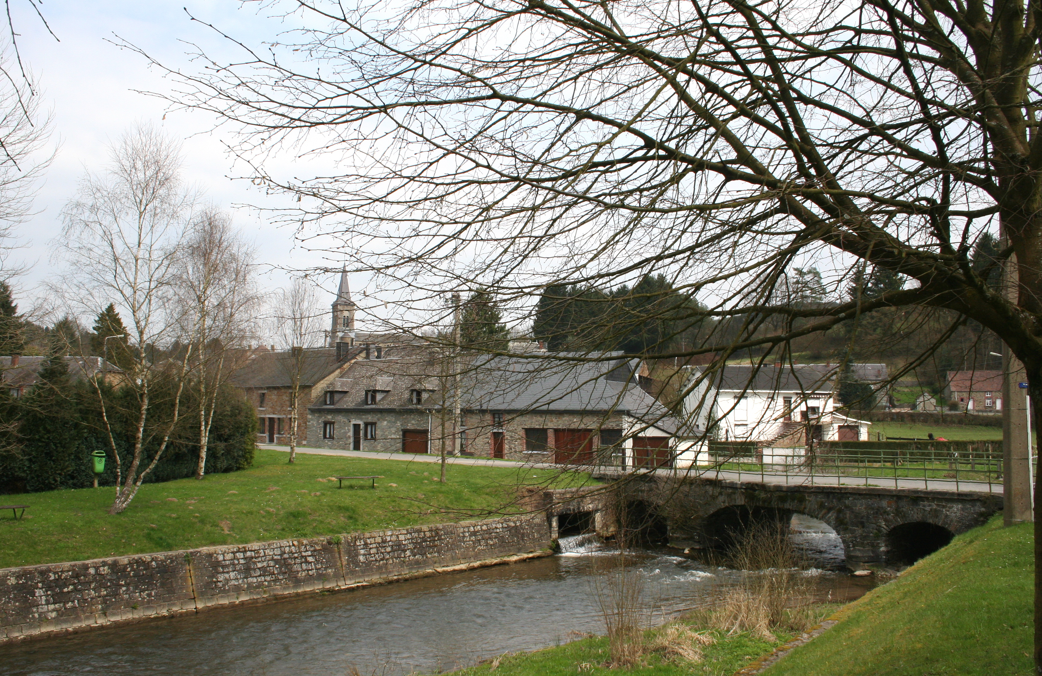 Vencimont (Belgium), the Houille river.